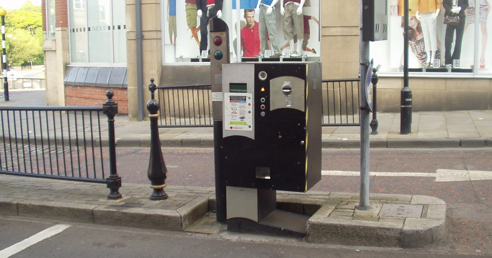 The former charging zone pay booth at exit for the congestion charge in Durham. The system now uses Automatic number plate recognition.